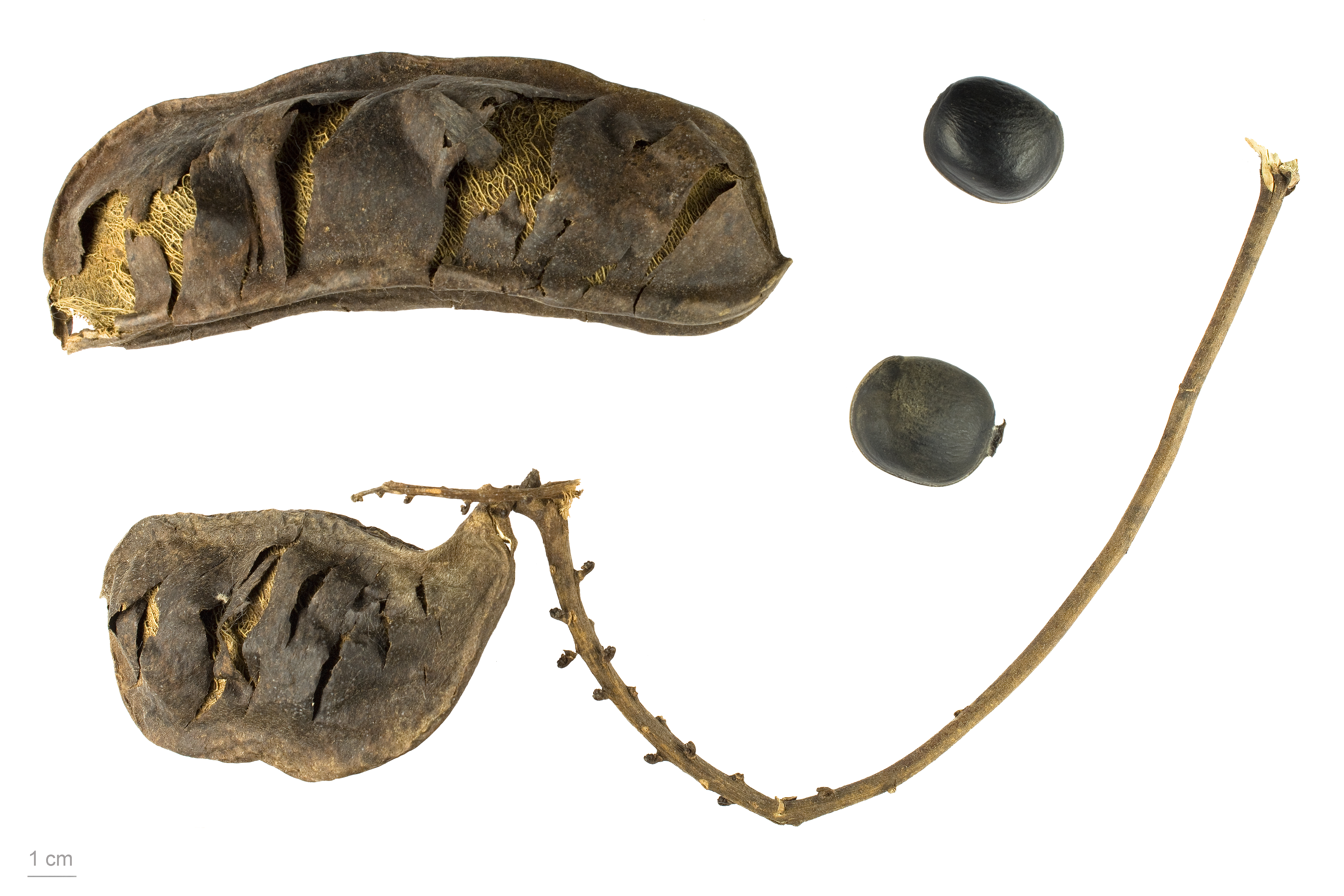 Dioclea macrocarpa , fruits and seeds